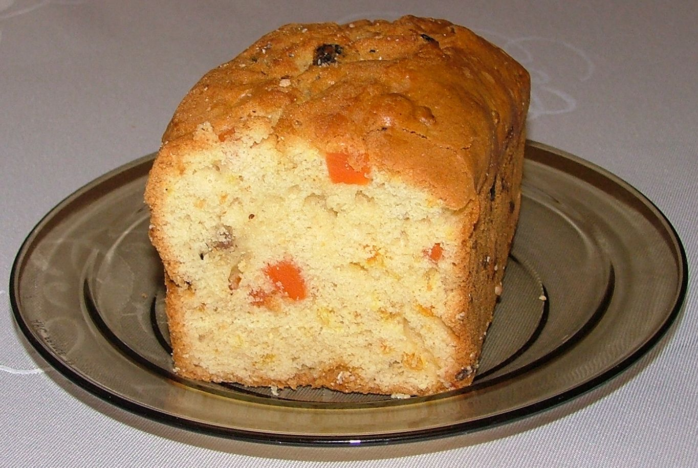 Fruitcake